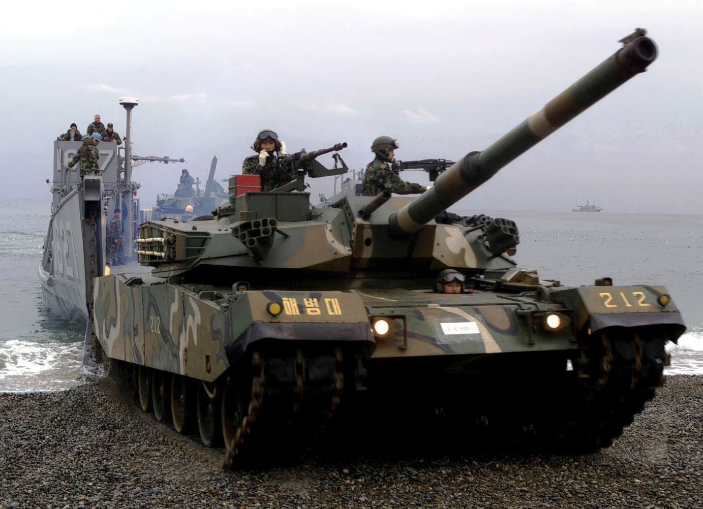 A Republic of Korea Forces Type 88 K1 Main Battle Tank unloads from Landing Craft Utility (LCU) 1627, along with U.S. soldiers from Okinawa, Japan. The combined amphibious beach assault at Tak San Ri Beach near Pohang, is in support of Exercise FOAL EAGLE 2000.